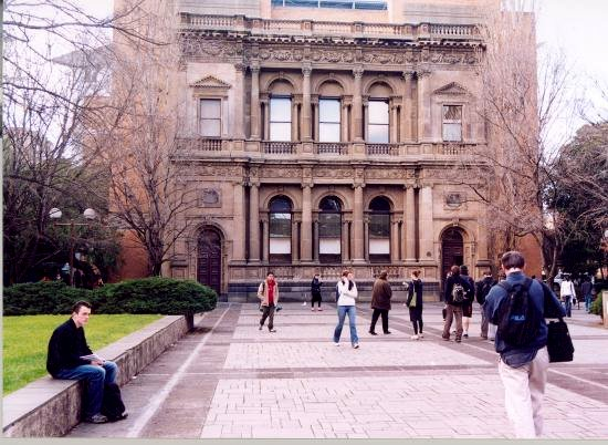 Larger image of the Concrete Lawn. Category:Images of buildings and structures in Melbourne